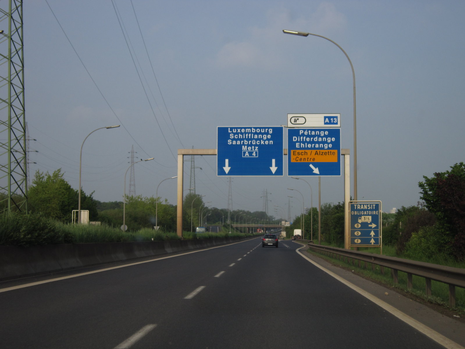 Motorway A4 in Luxembourg between Esch-sur-Alzette and major city.